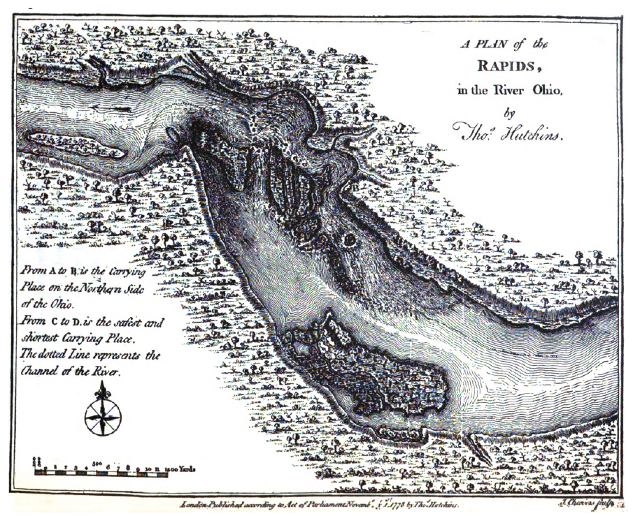 The Ohio River at Louisville drawn by Thomas Hutchins, published in 1778.